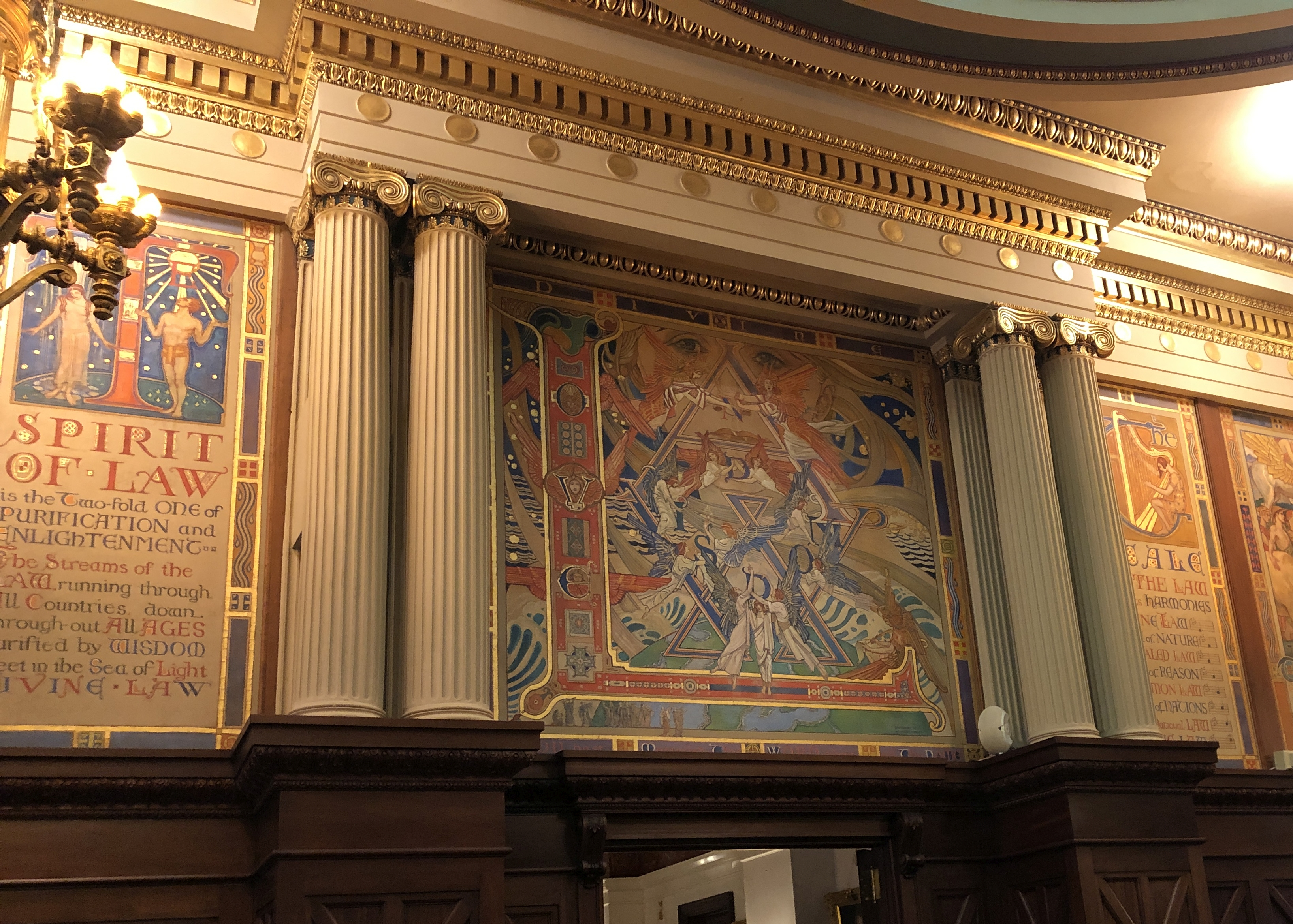 Photograph taken of the wall of the Pennsylvania Supreme Court's chambers, primarily the part over the doors that lead out toward the Capitol Rotunda. Detail shows a mural by Violet Oakley that, according to our guide, is also something of a word search, along with smaller panels to either side. The primary capital letters of the center piece spell the word LAW, but you can also see the letters O, V, and E painted inside the large L, the letters N and D interior to the large capital A, and the letters I,S,D,O,M along the interior of the large W, thus showing that Divine LAW is composed of LOVE AND WISDOM. The centerpiece, called Divine Law, is 10' x 11'. To the right is The Octave, 10' x 4' 6". To the left, The Spirit of Law is also 10' x 4' 6". According to "A Sacred Challenge; Violet Oakley and the Pennsylvania Capital Murals," the murals in these chambers were painted between 1917 and 1927.